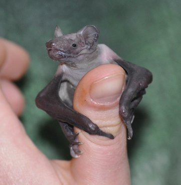 Noctalus noctula noctula (youngster).